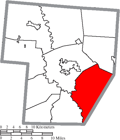 Map of the municipal and township boundaries of Fayette County, Ohio, United States, as of the 2000 census, with the location of Wayne Township highlighted. Township borders are shown only in unincorporated areas in order to differentiate incorporated and unincorporated areas more clearly.